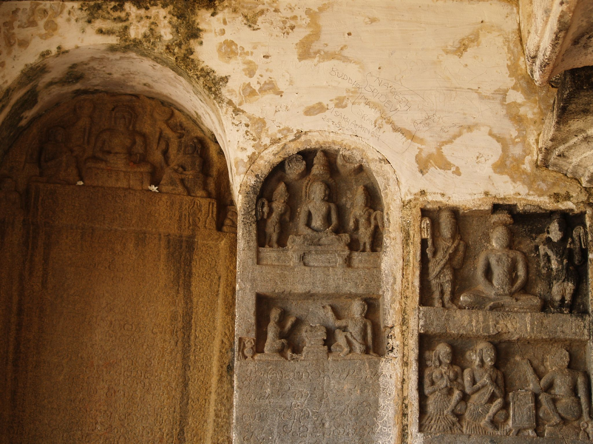 Wall carvings at the Jain temple of Shravanabelagola, Karnataka in India, showing several seated figures.